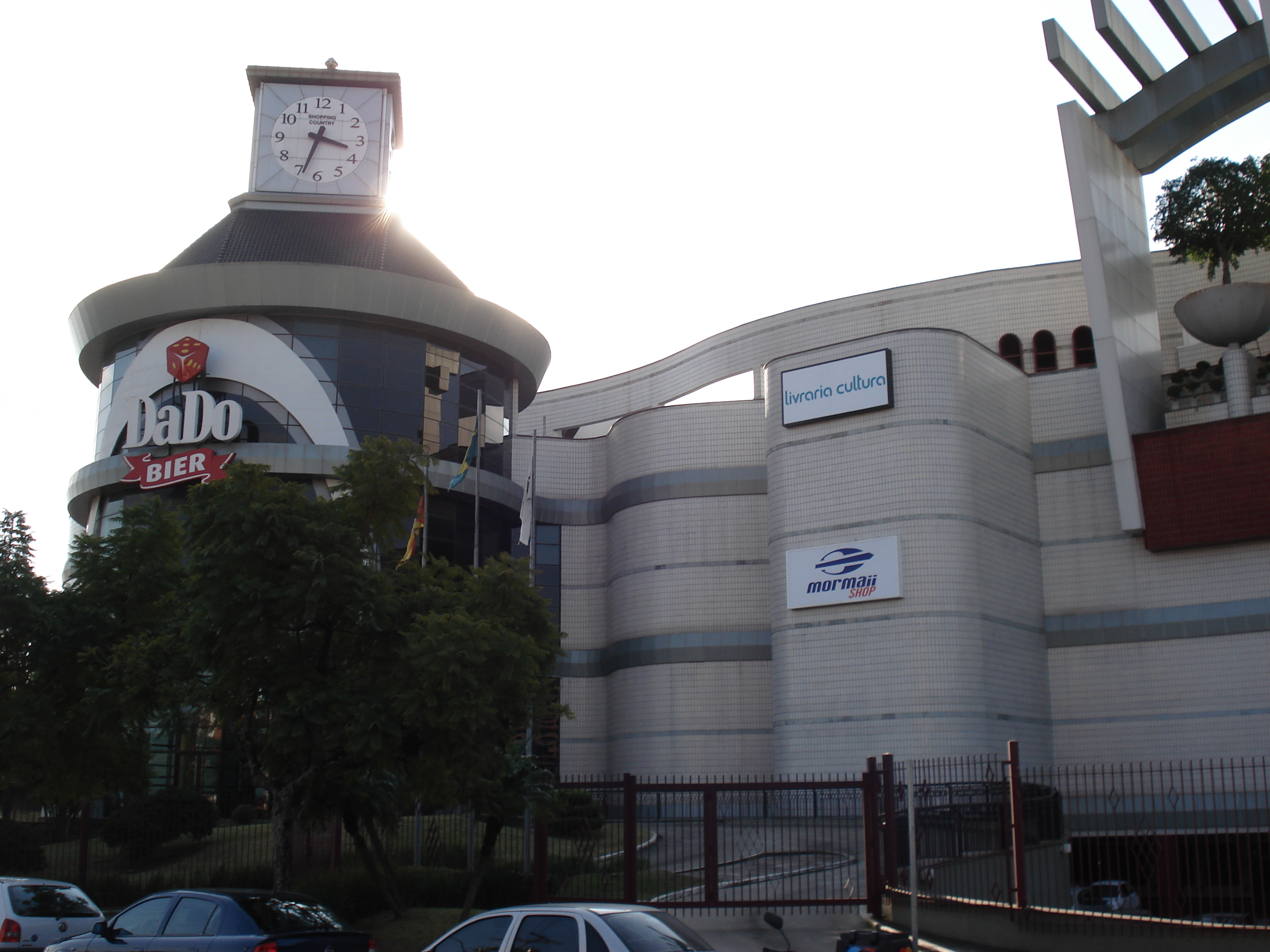 Bourbon Shopping Country